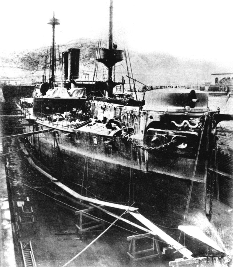 旅顺船坞内的zh:鎮遠艦,摄于1894年中日甲午战争之前Chinese ironclad Zhenyuan/Chen Yuen in Lüshun dockyard, in the 1894 Sino-Chinese War